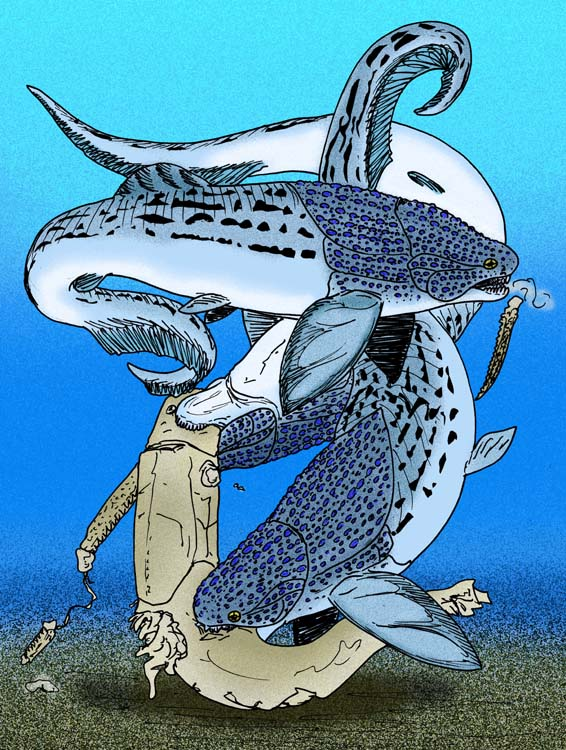 Reconstruction of a trio of the coccosteid arthrodire placoderm, Protitanichthys fossatus, from the Eifelian-aged Delaware Limestone of Middle Devonian Ohio, feeding on the corpse of a bothriolepid antiarch.